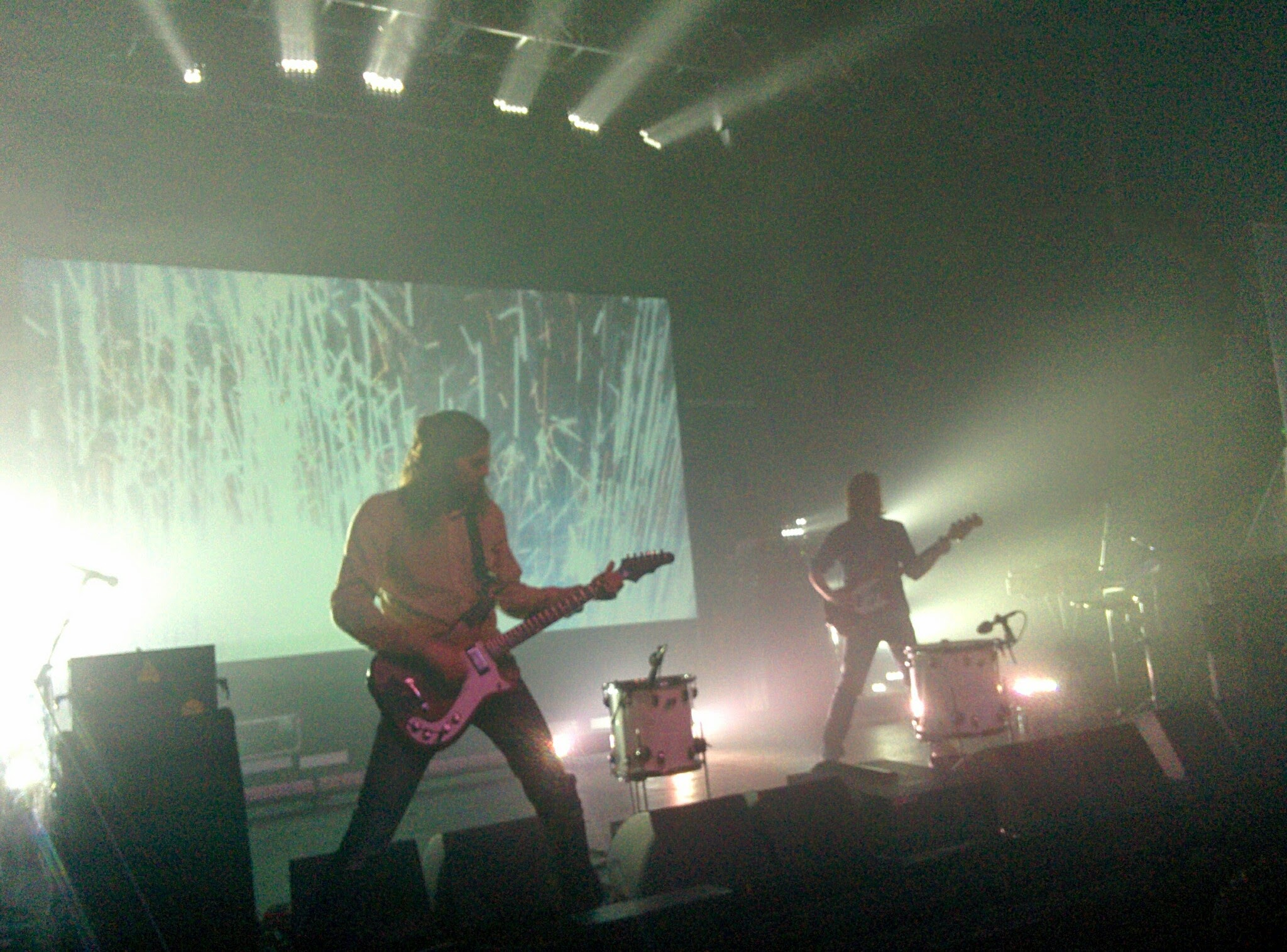 Ratatat performing at Pomona Fox Theater, on April 15, 2015.